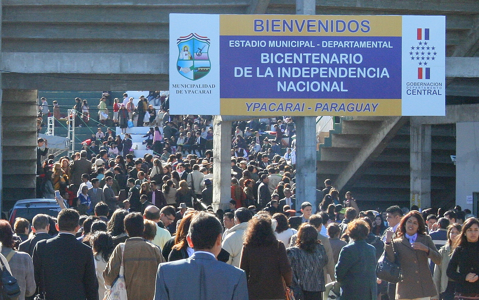 Acceso principal al estadio del Bicentenario de Paraguay